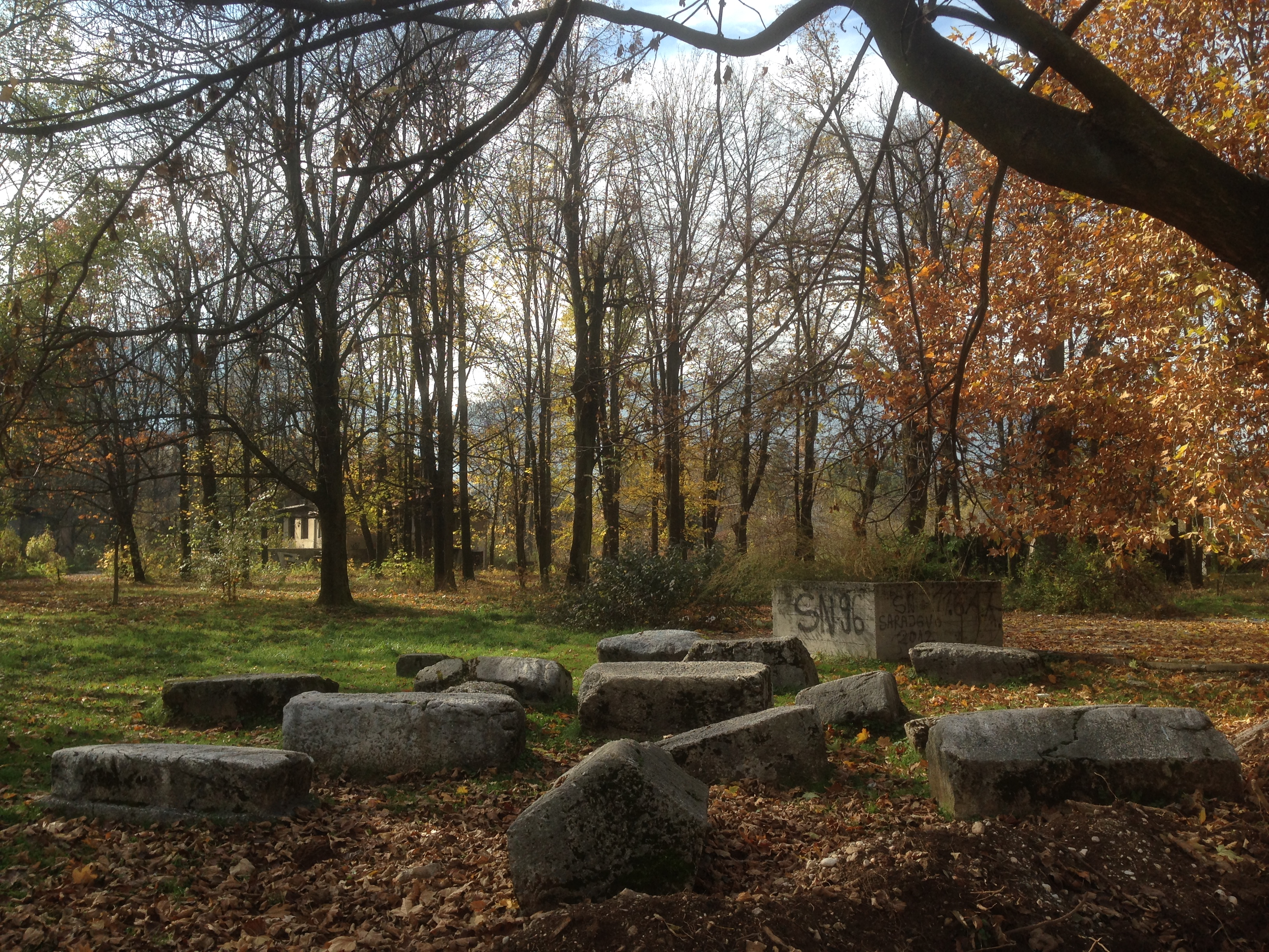 Stećci in Ilidža